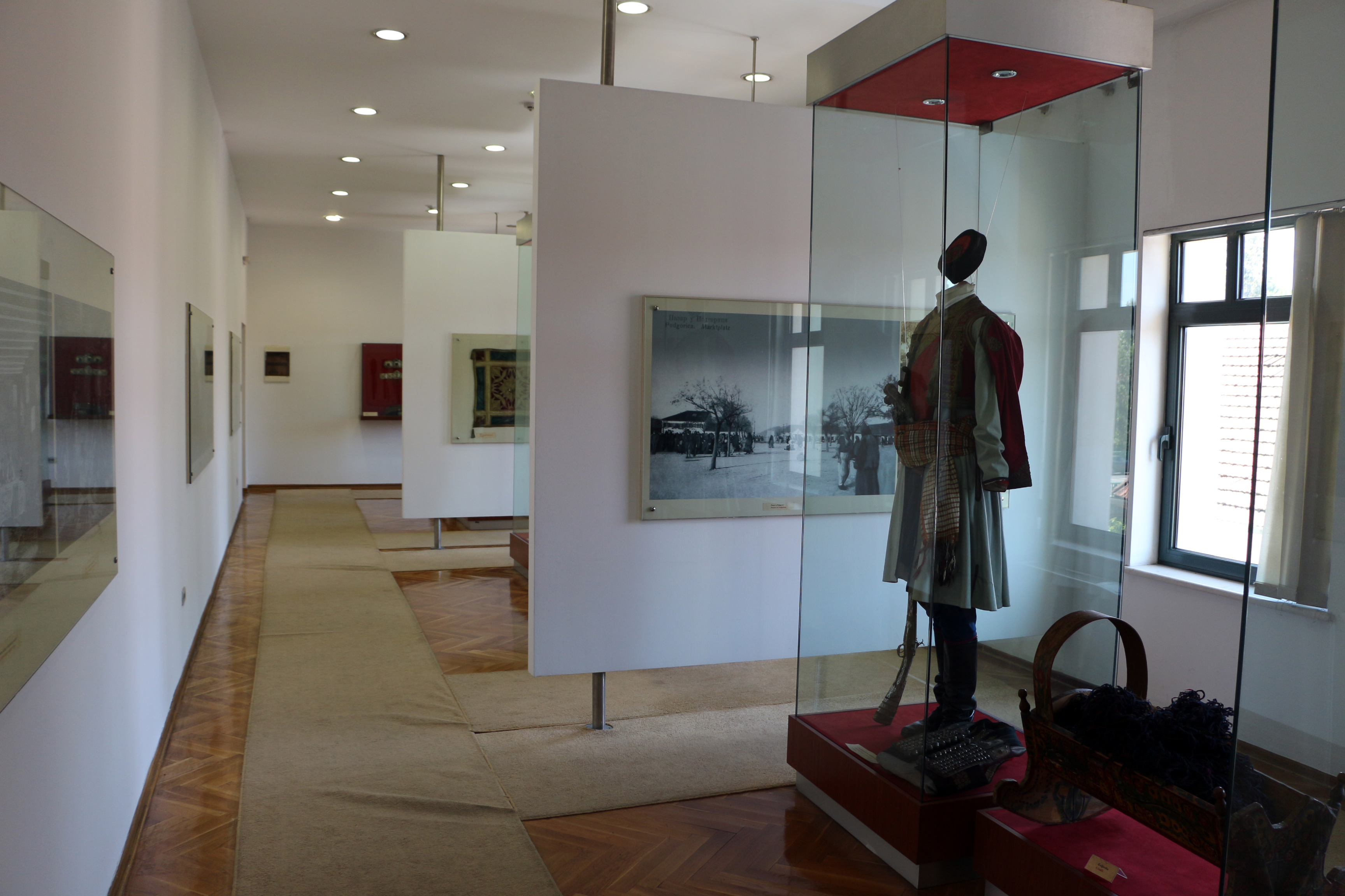 National Museum of Montenegro (Podgorica)